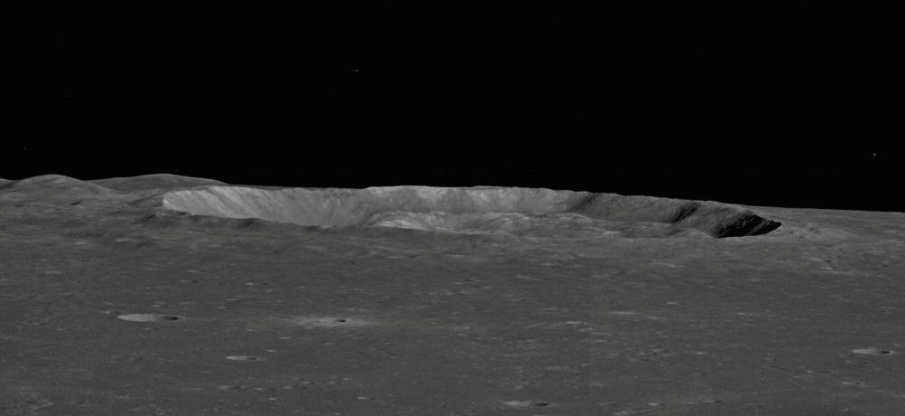 Highly oblique view of Plinius, on the moon, facing northwest.